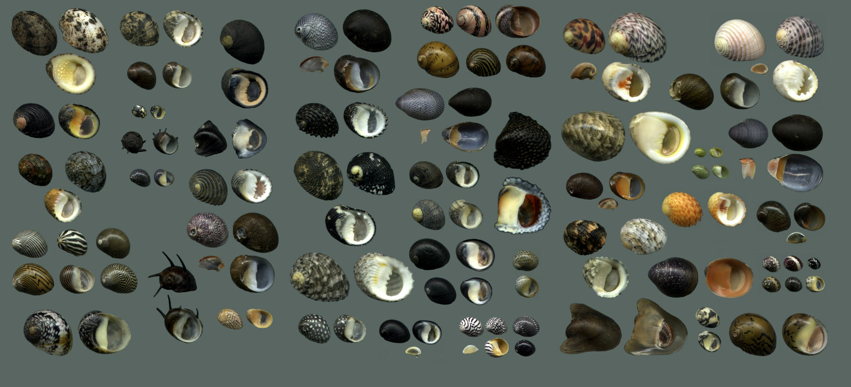 various shells of Neritidae